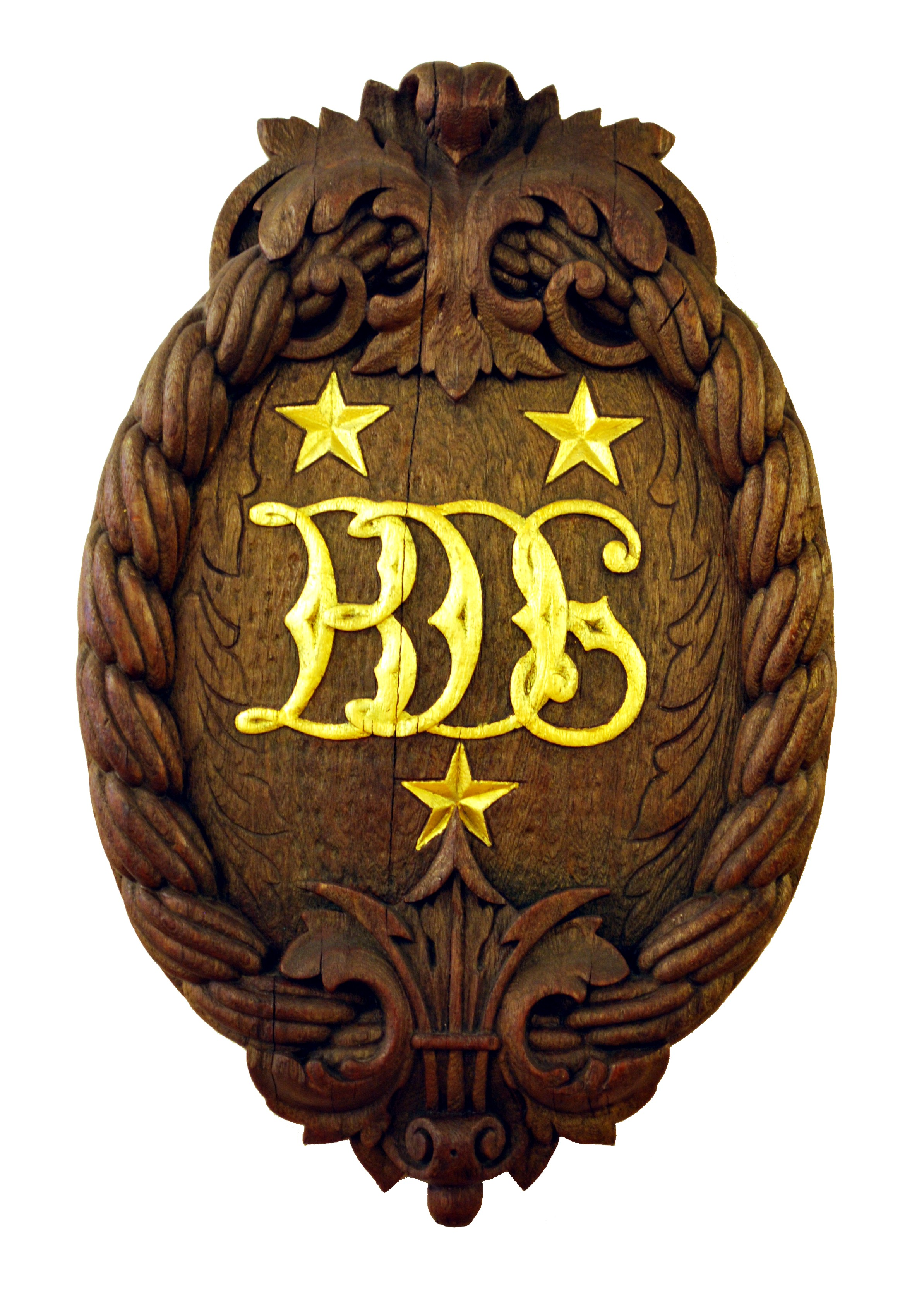 Wooden carving with emblem of Det Bergenske Dampskibsselskab (Bergen Steamship Company), now in Bergens Sjøfartsmuseum.